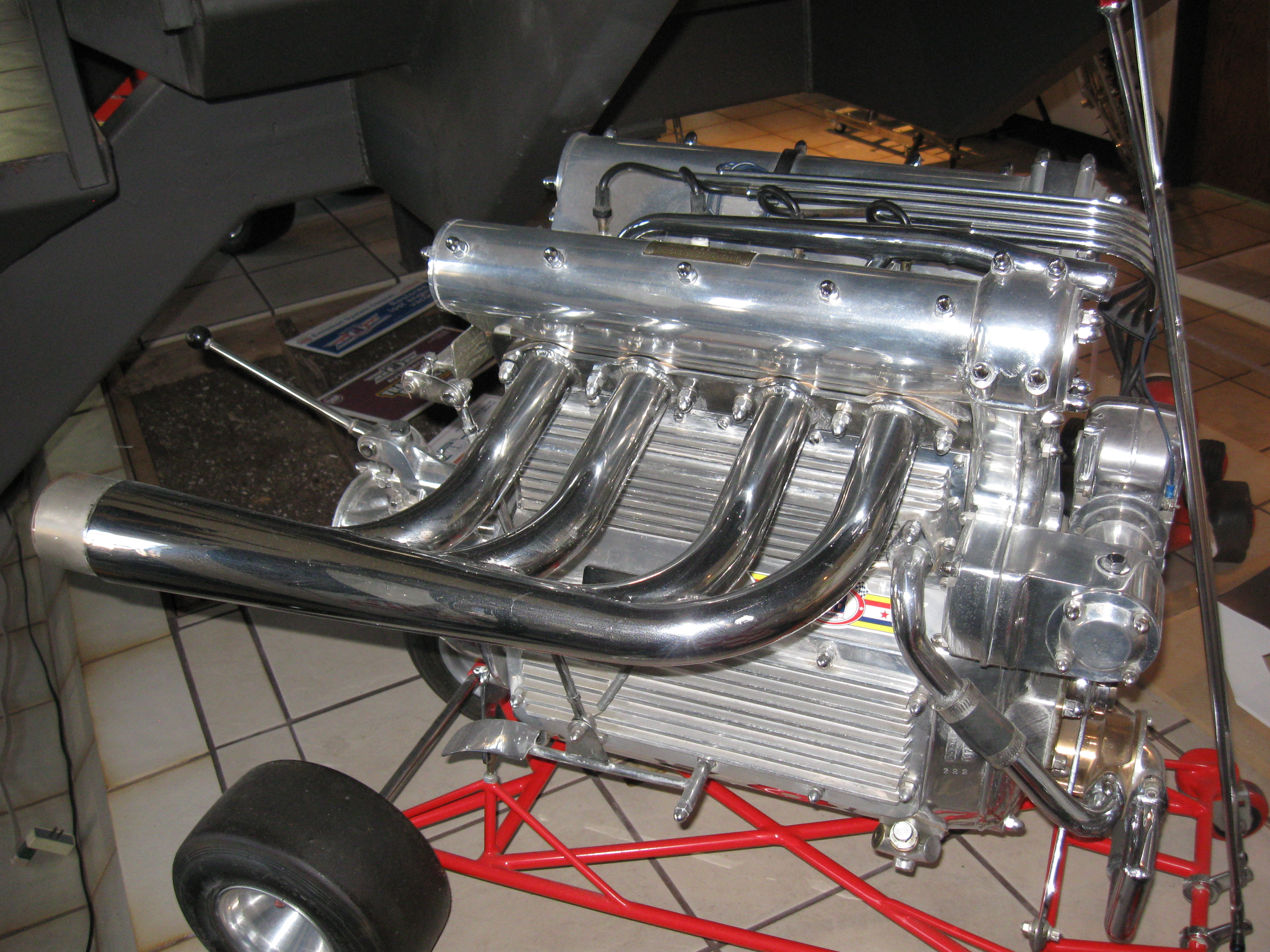 Offenhauser "Offy" midget racing engine - picture taken at the Justice Brothers racing museum in Duarte, California